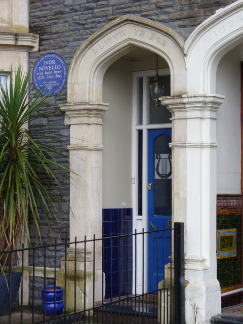 Welsh Male Voice Singer's Birthplace The famous singer, Ivor Novello, was born in this house in Cardiff's Cowbridge Road East on 15th January 1893. The Gothic stone-arched doorway carries the inscription "Llywn yr Eos" and has the commemorative blue plaque beside it.